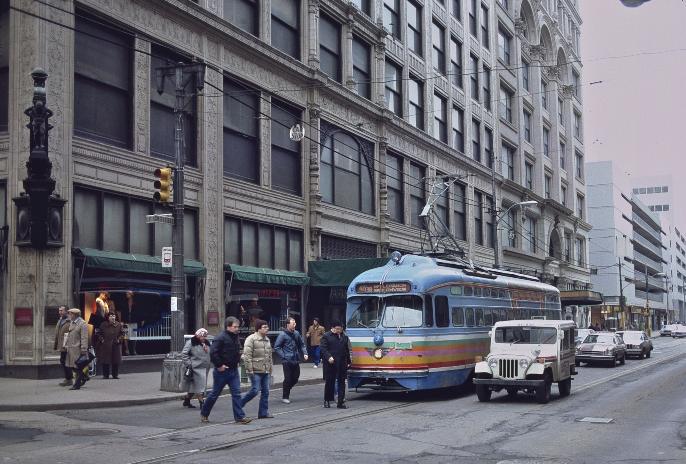 A trolley car/streetcar (tram) passing the flagship Kaufmann's store, in downtown Pittsburgh, in 1984. The trolley (car No. 1754, wearing a paint scheme unique to that one car) was northbound on Smithfield Street at Fifth Avenue. The store became a Macy's in 2006. Streetcar service on surface streets in downtown Pittsburgh ended in July 1985 (about 16 months after this photo was taken), replaced by a new light rail subway. Pantographs had replaced trolley poles on Pittsburgh's streetcars only a few months before this photo, in November 1983. Route "42/38" ceased operating in mid-April 1984, for construction, reopening later as simply "42".